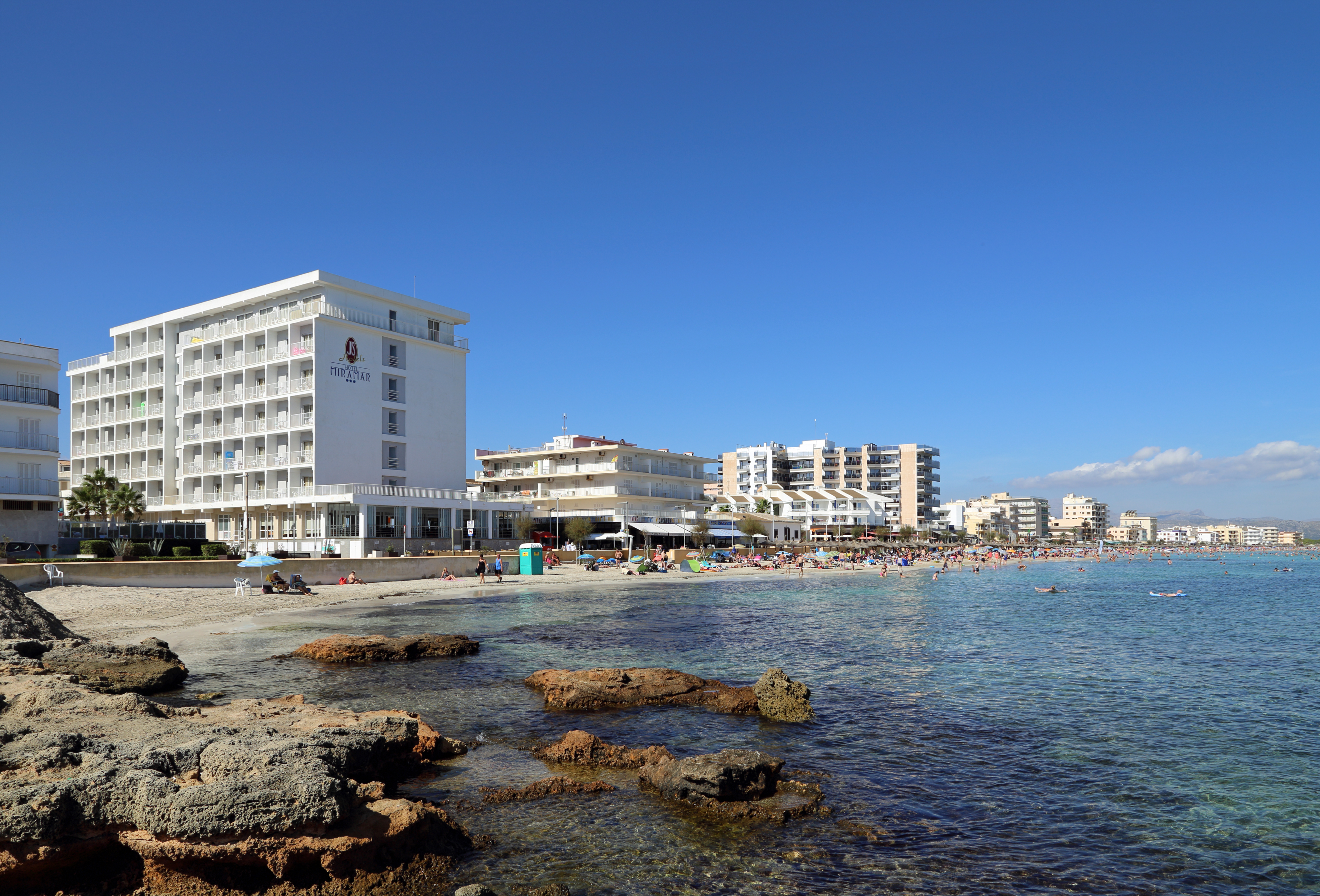 Seaside resort of Can Picafort (municipality of Santa Margalida, Majorca, Spain)